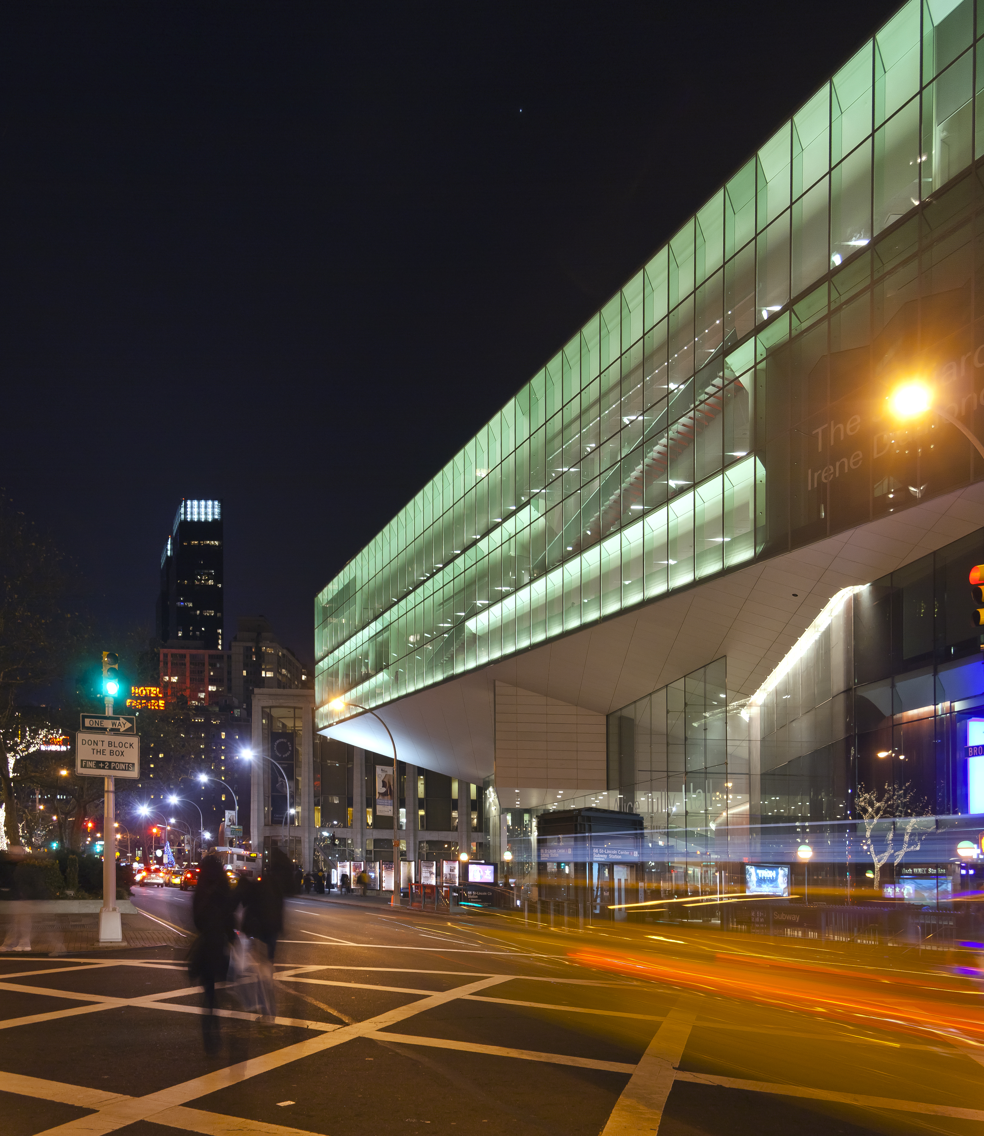 Alice Tully Hall at night, in its setting.